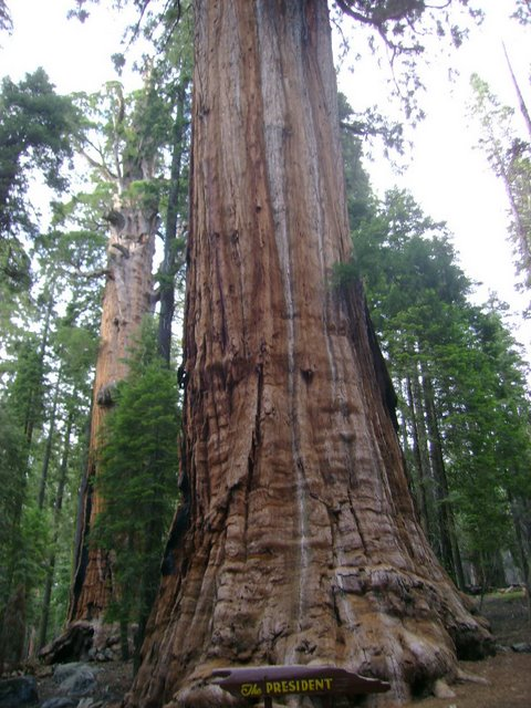 President tree in Giant Forest, California